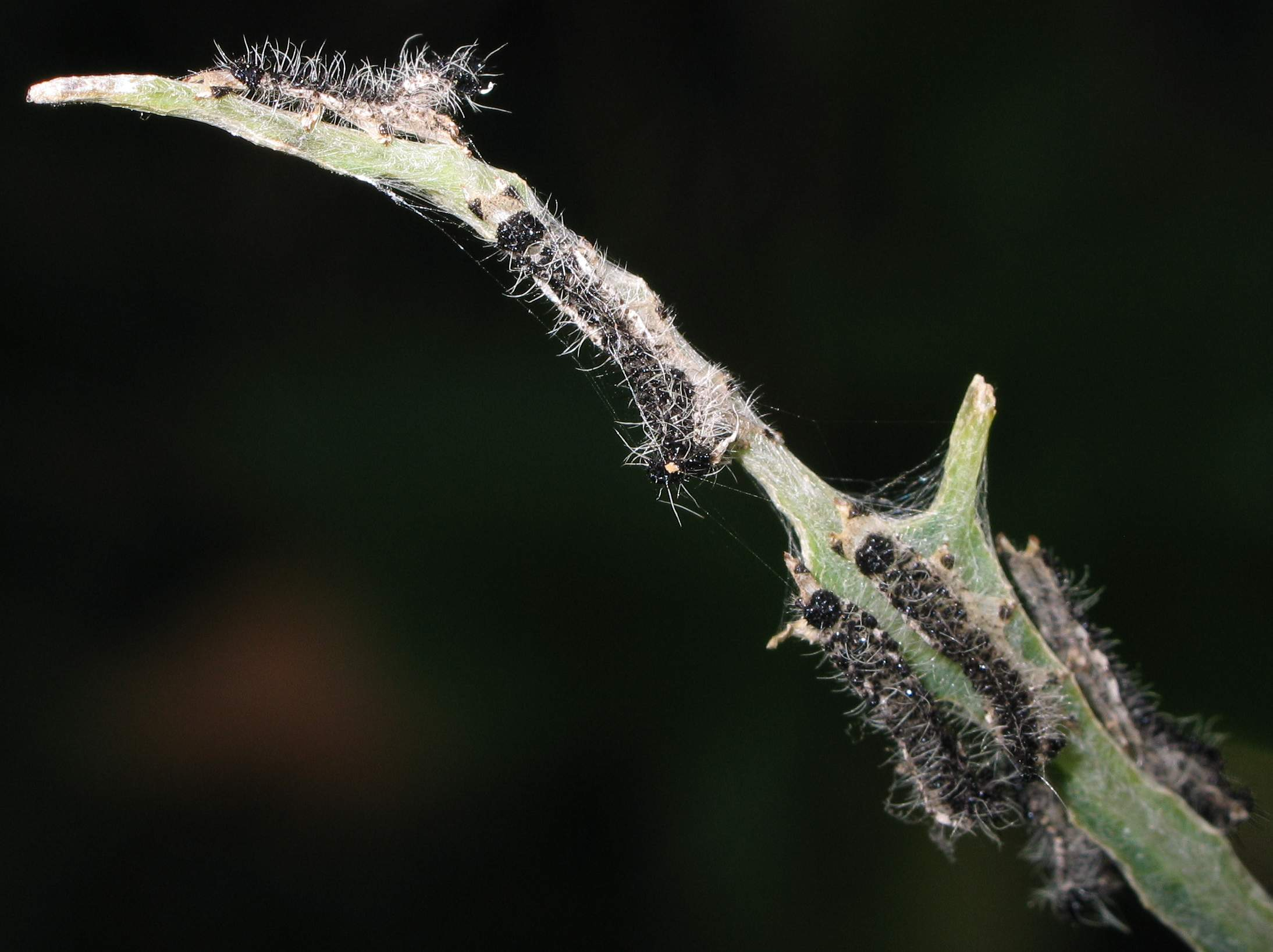 Exuvie of Large White (Pieris brassicae) caterpillars. Author: soebe Date: September 25, 2005 Location: Eckernförde, Northern Germany Taken by Soebe in Northern Germany (Eckernförde) and released under GNU FDL.